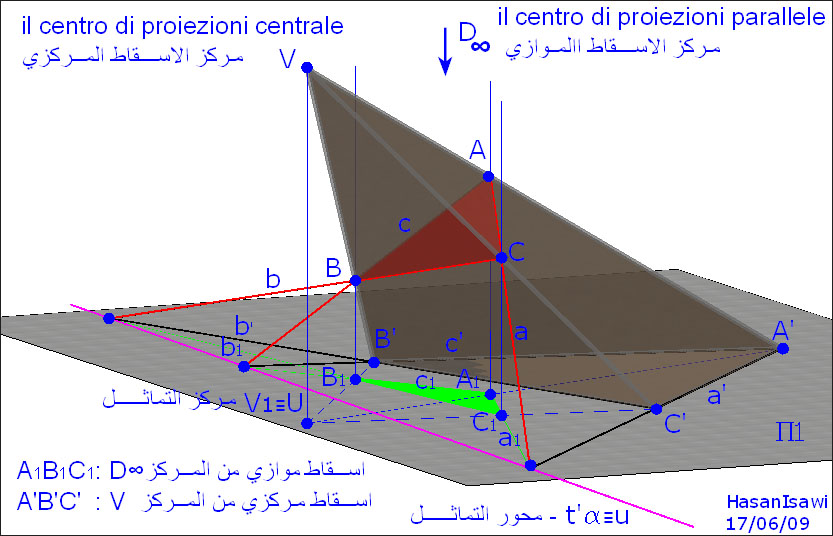 homology